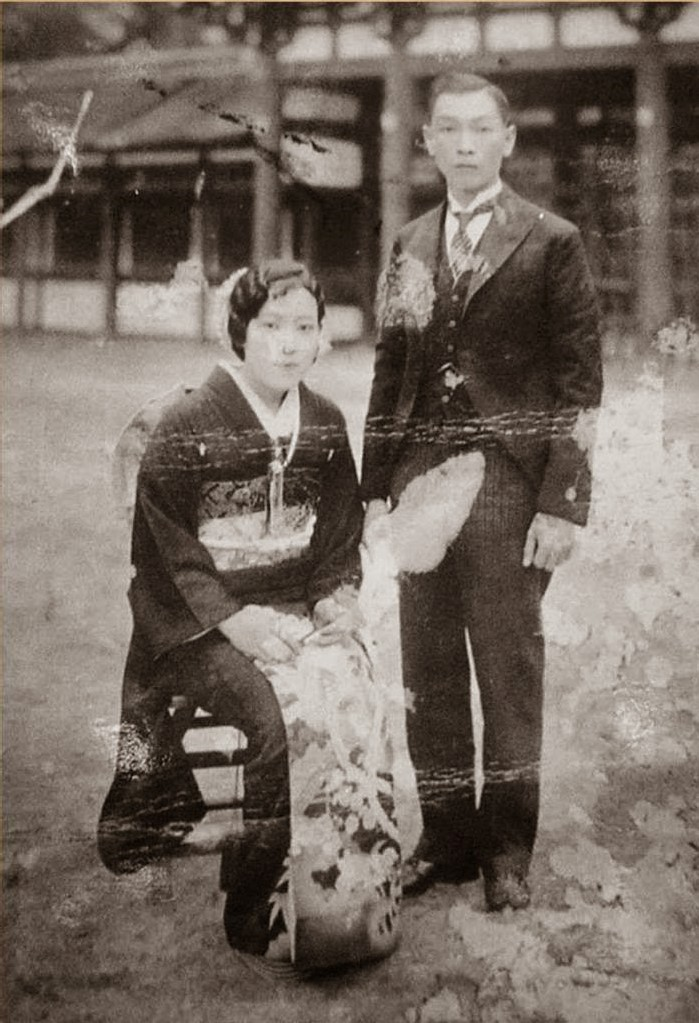 wedding memorial photo of 施乾(Si Khiân) and 清水照子(Shimizu Teruko)